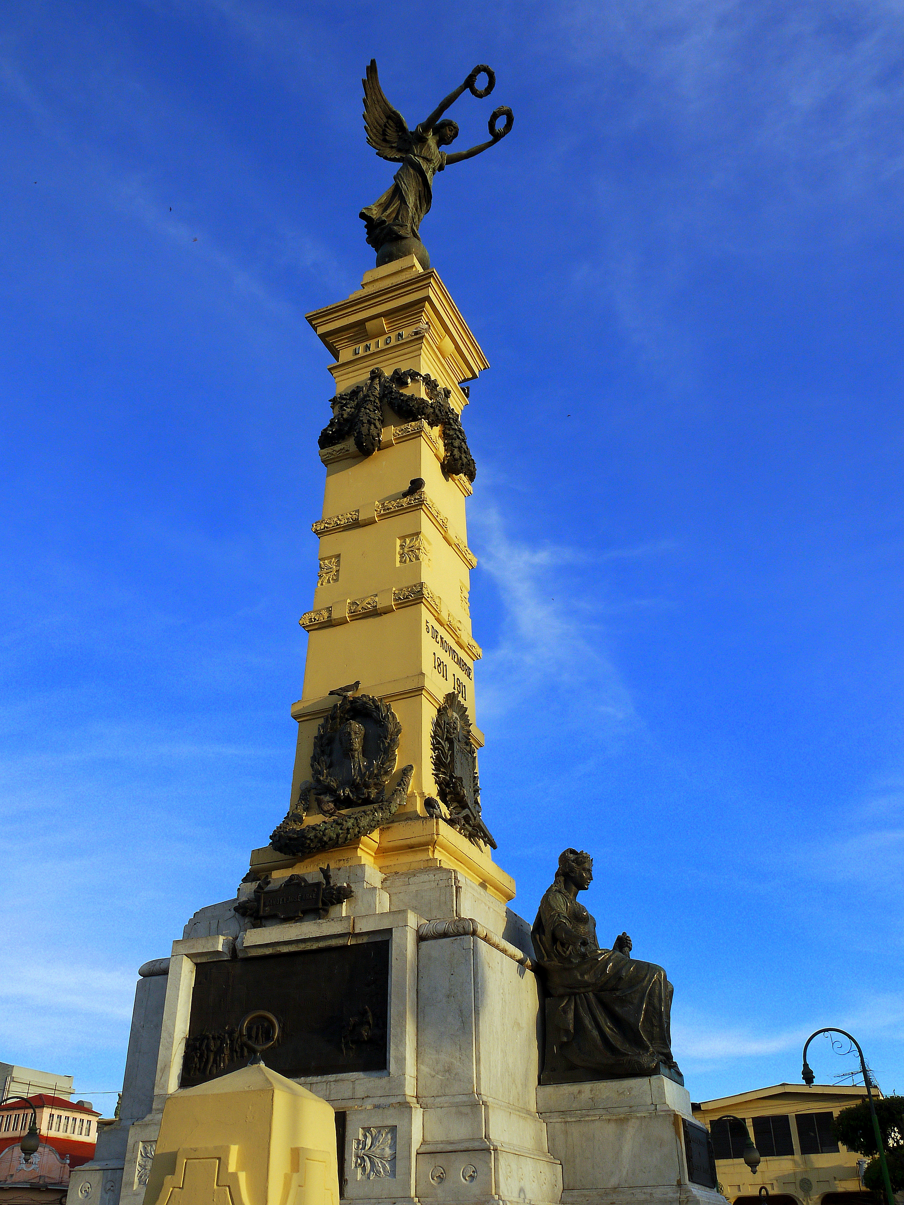 Plaza Libertad, San Salvador, El Salvador